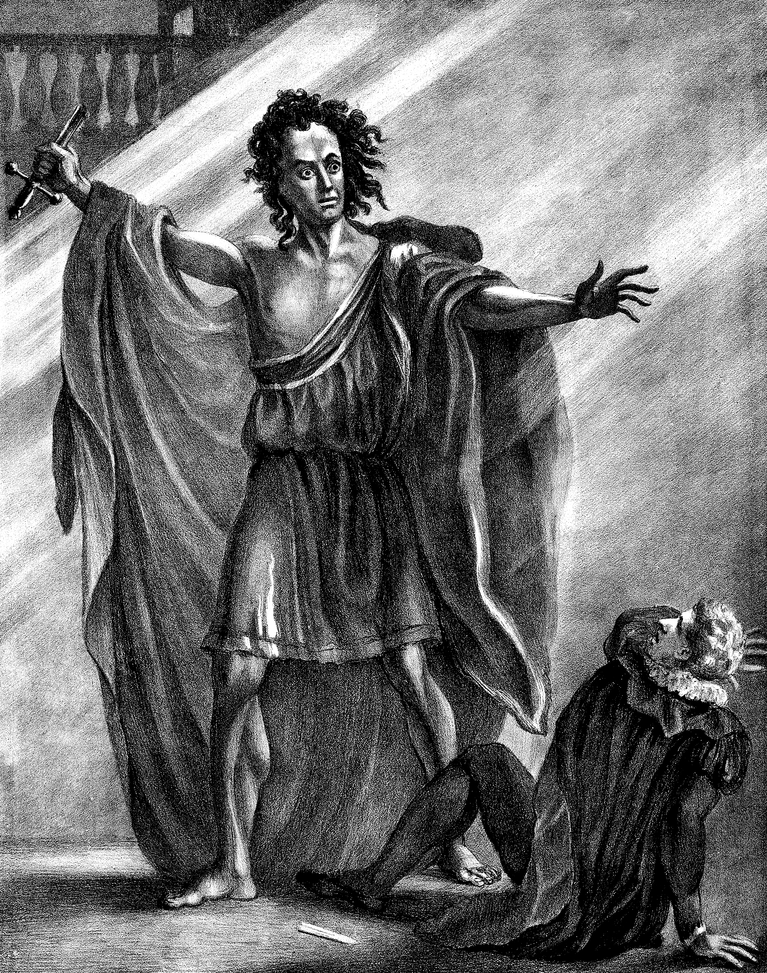 T.P. Cooke as Frankenstein's monster in the 1823 production of Presumption; or, the Fate of Frankenstein